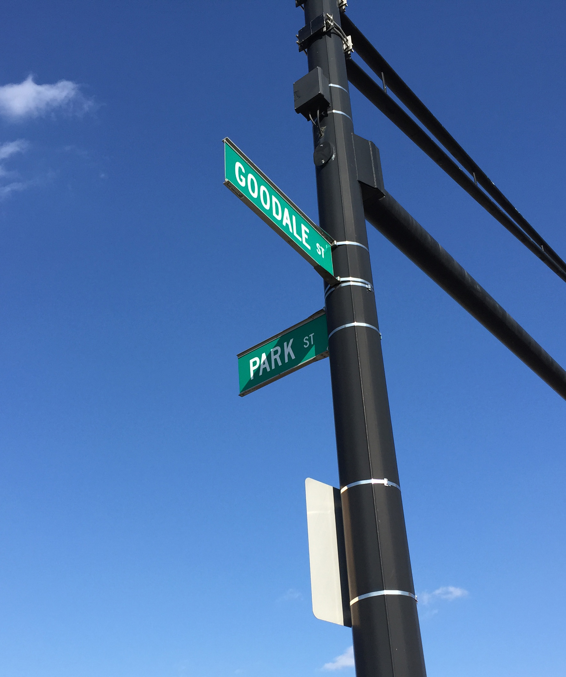 Goodale and Park